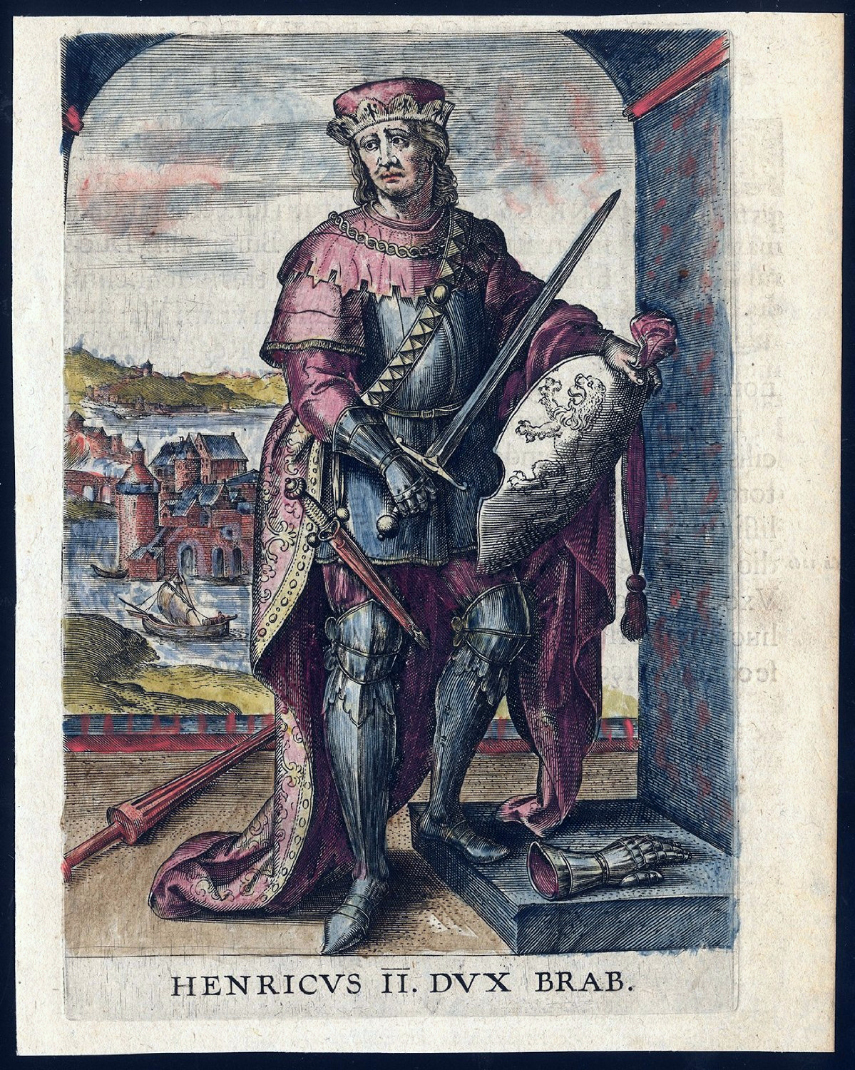 Henry II of Brabant